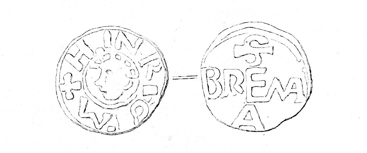 Pfennig (Denar), Bremen, 1014 - 1024